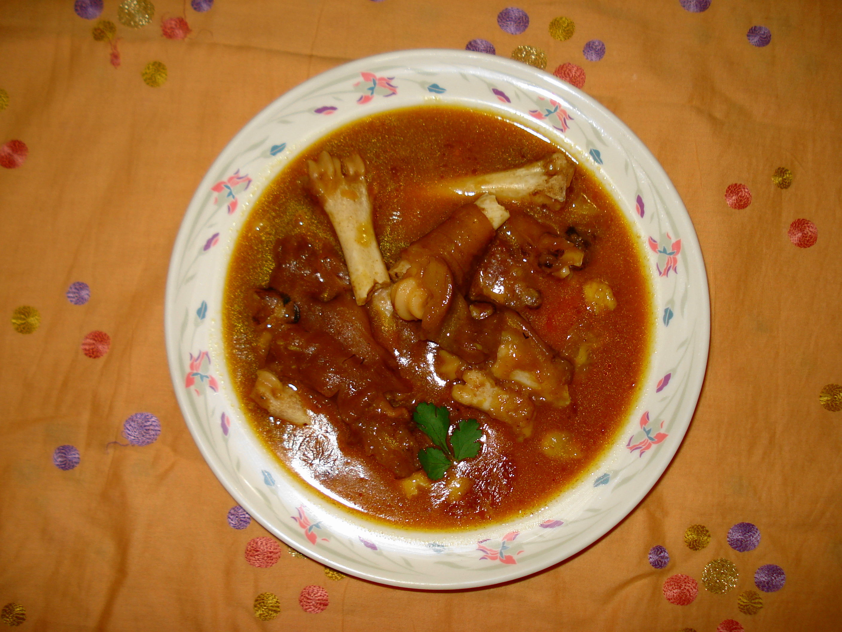 Paye Ka Salan, Phajjay Ke Paye are popular in Lahore Pakistan